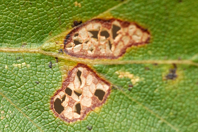 Caloptilia alchimiella from Commanster, Belgian High Ardennes .